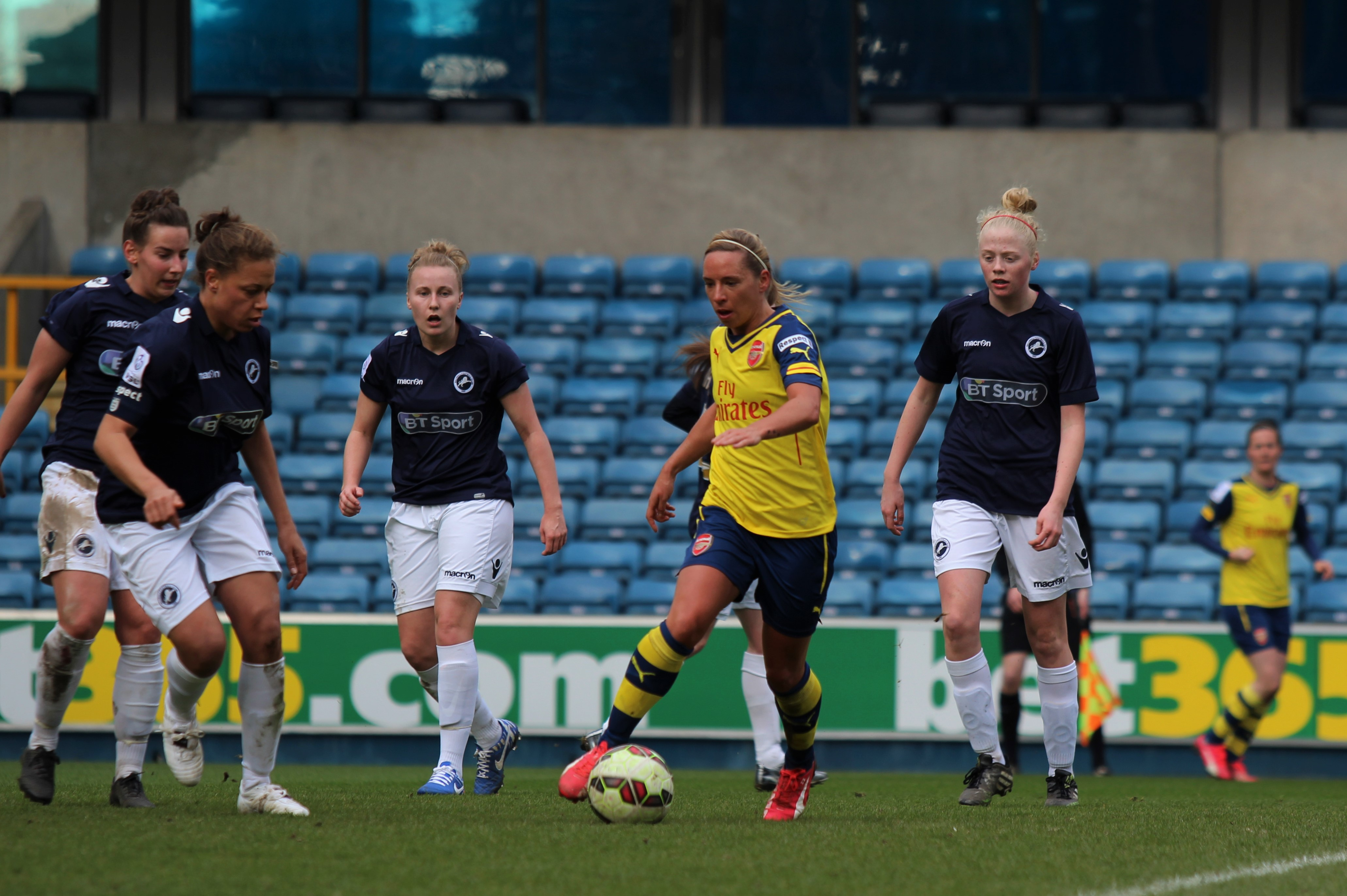 Jordan Nobbs of Arsenal Ladies dribbles through the Millwall Lionesses defence.